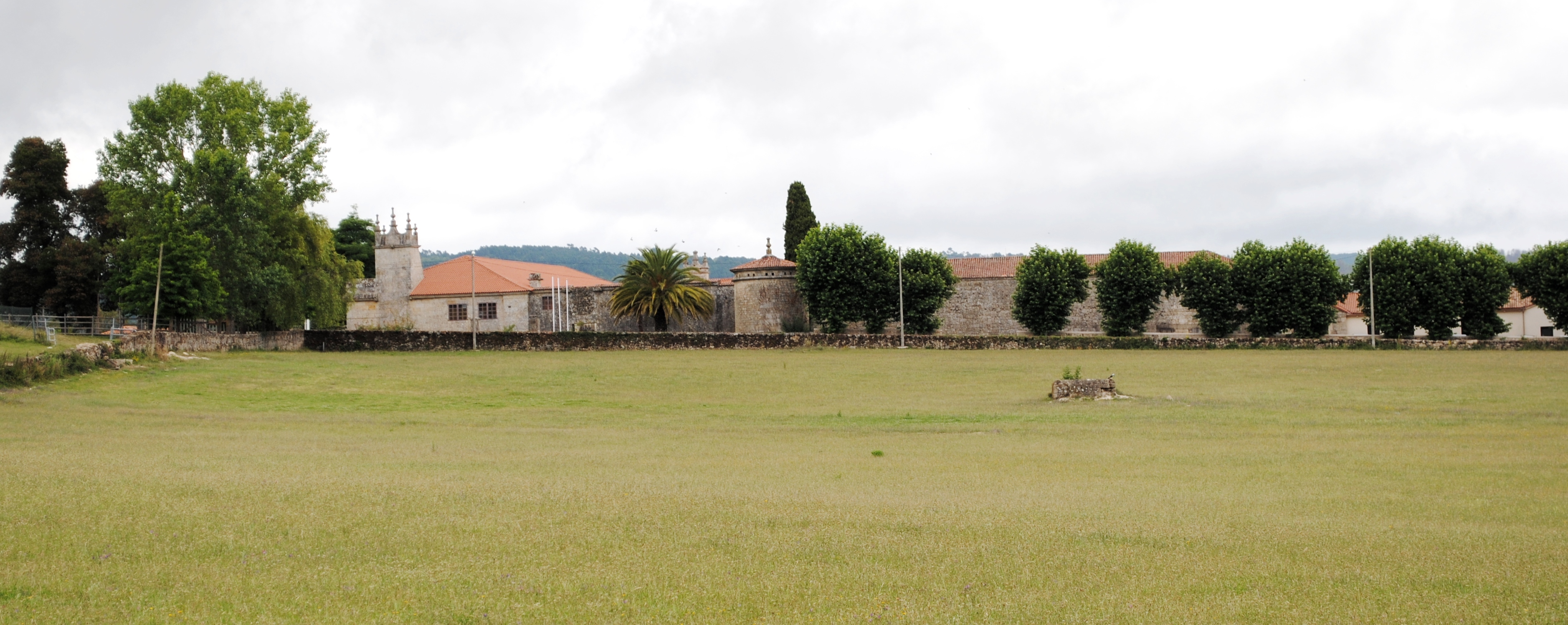 See title.